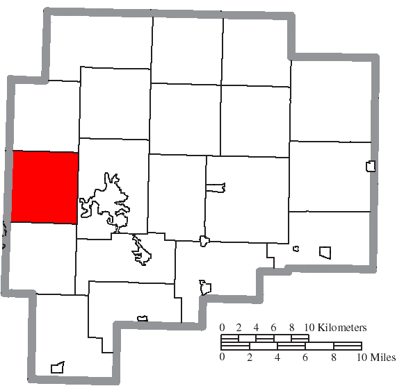 Map of the municipal and township boundaries of Guernsey County, Ohio, United States, as of the 2000 census, with the location of Adams Township highlighted. Township borders are shown only in unincorporated areas in order to differentiate incorporated and unincorporated areas more clearly.